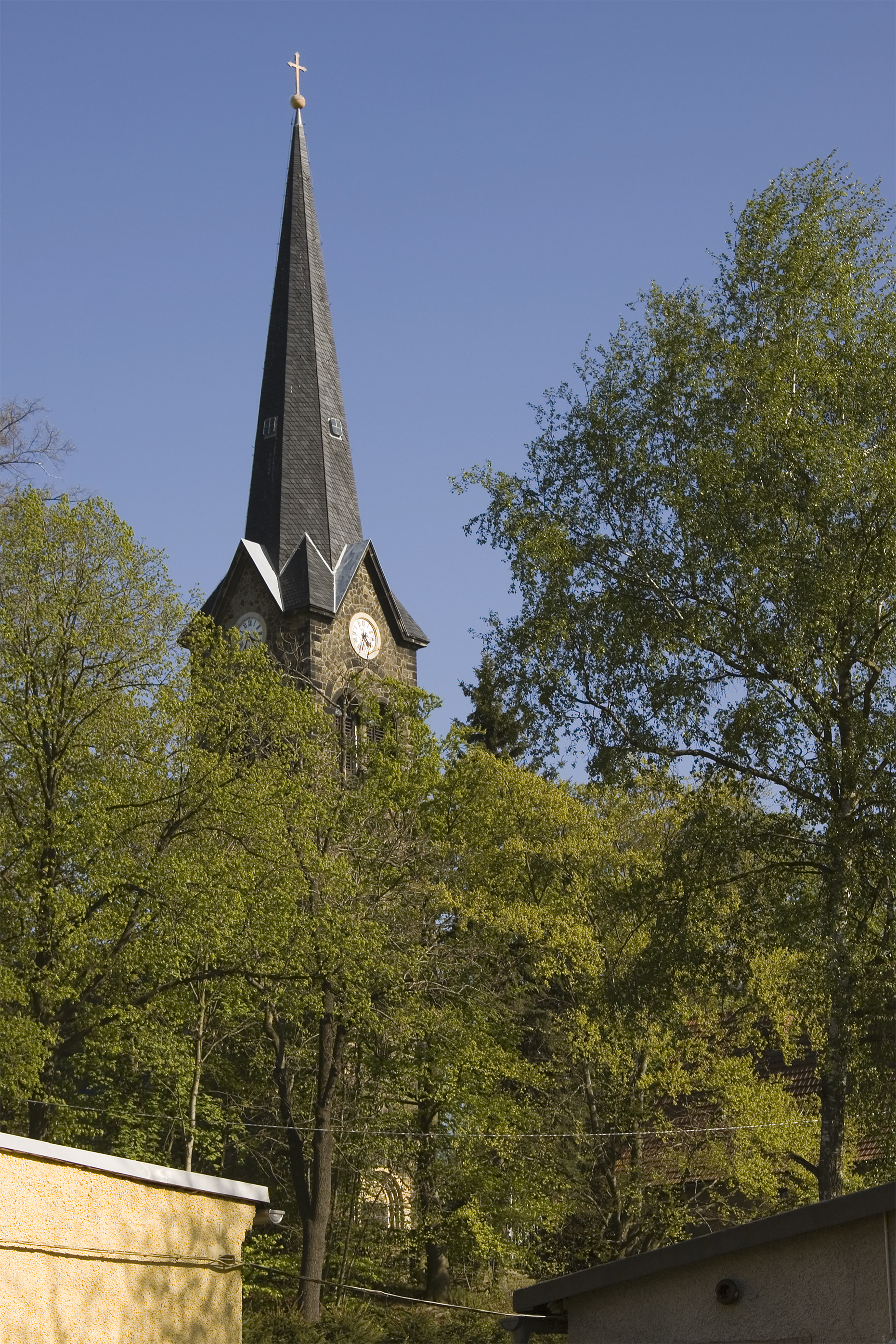 Kleinwaltersdorf (part of Freiberg, Saxony), church tower